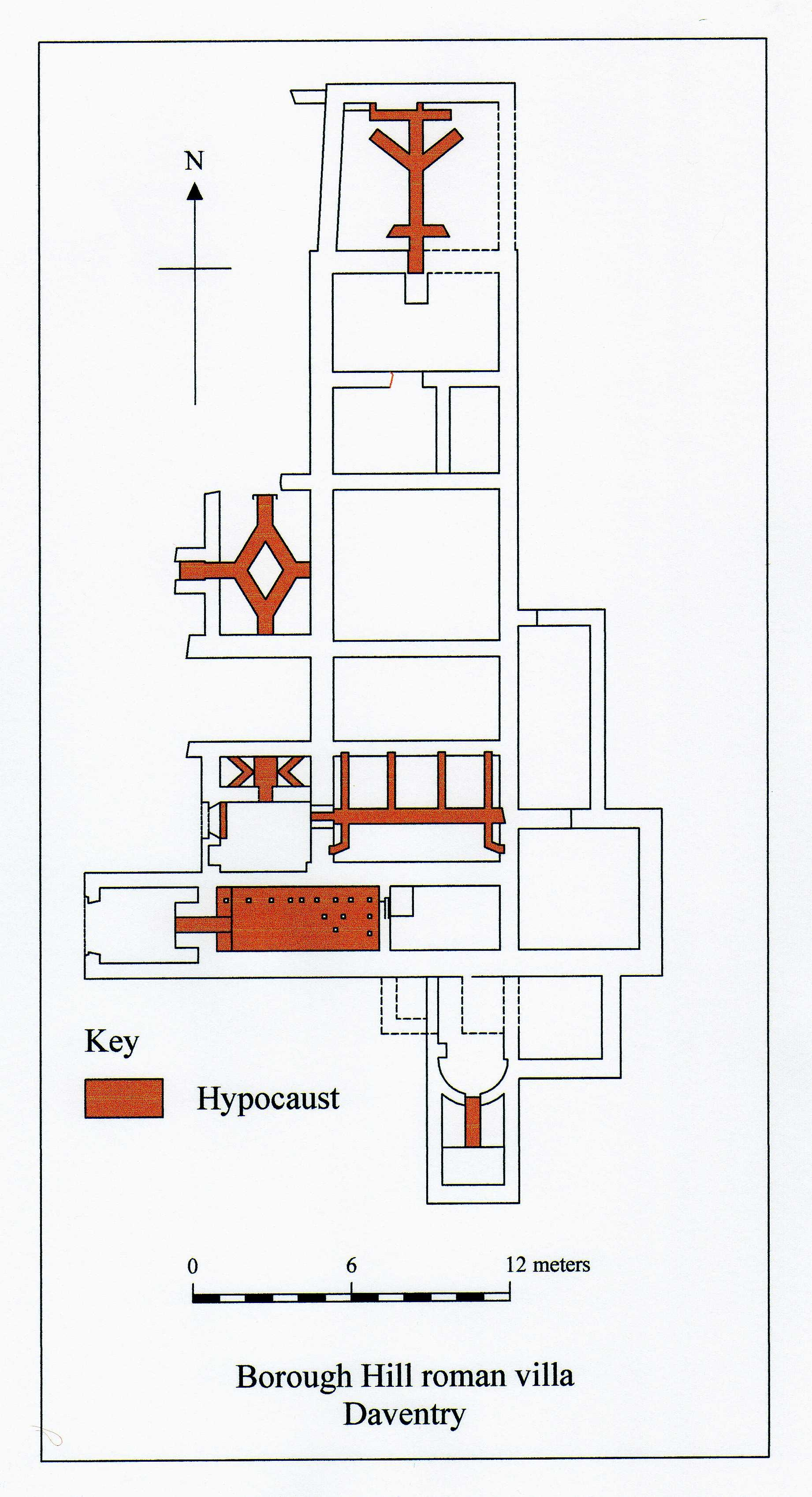 A scanned image of Bourough Hill Roman villa created using AutoCAD software by Stavros1 (talk) 00:07, 27 January 2008 (UTC) Drawn on the 26th January 2008.